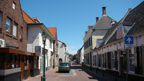 Mainstreet Warmond